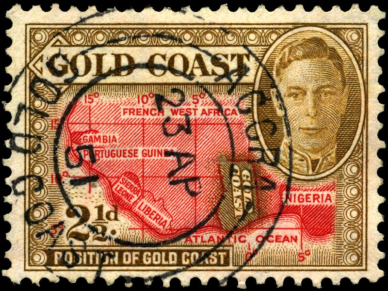 Gold Coast 2 1/2pp stamp of 1948